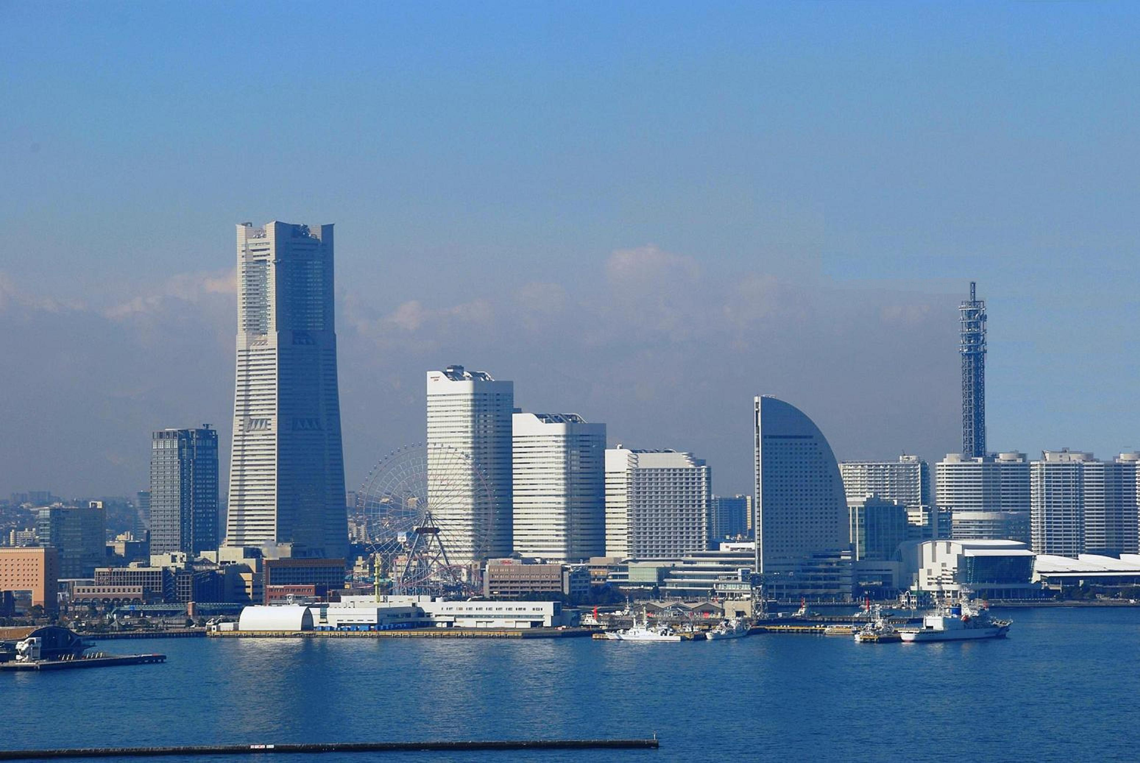 Yokohama city center